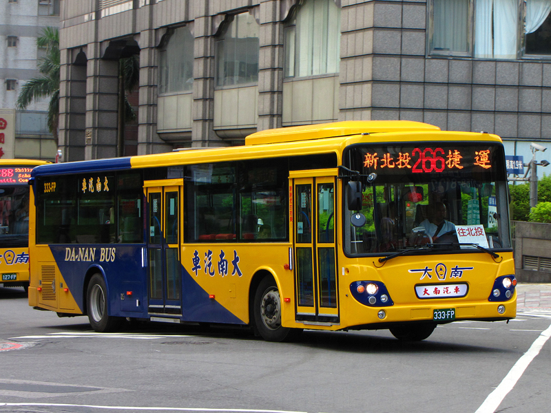 2010 DAEWOO BS120CN